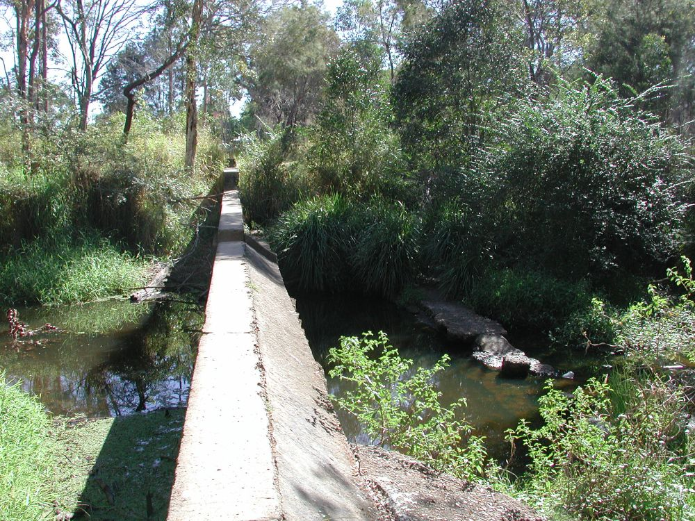 Lagoon Creek Railway Water Supply Facility and Pump Station (2006) - dam wall